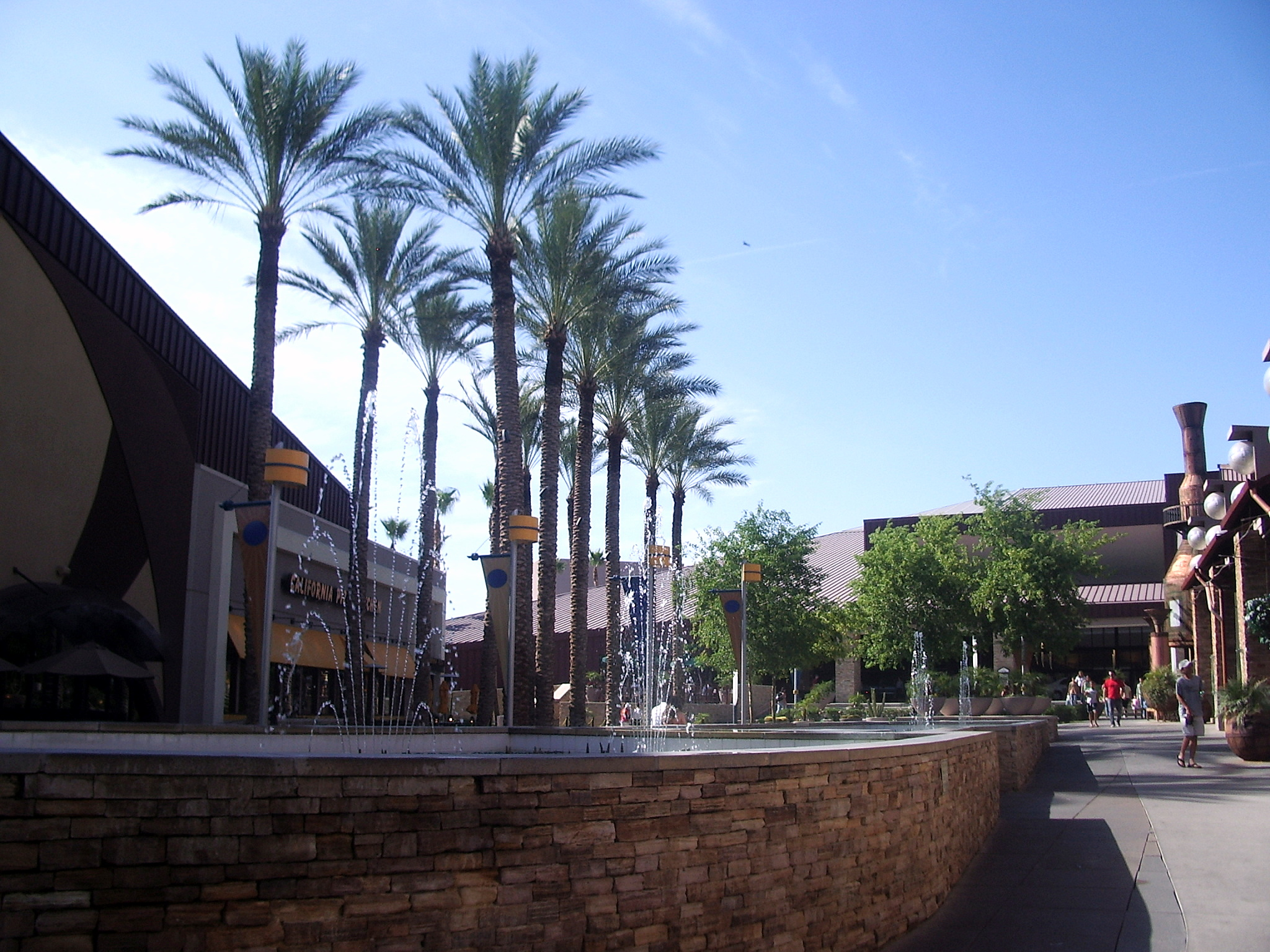 Chandler Village outdoor plaza at Chandler Fashion Center.